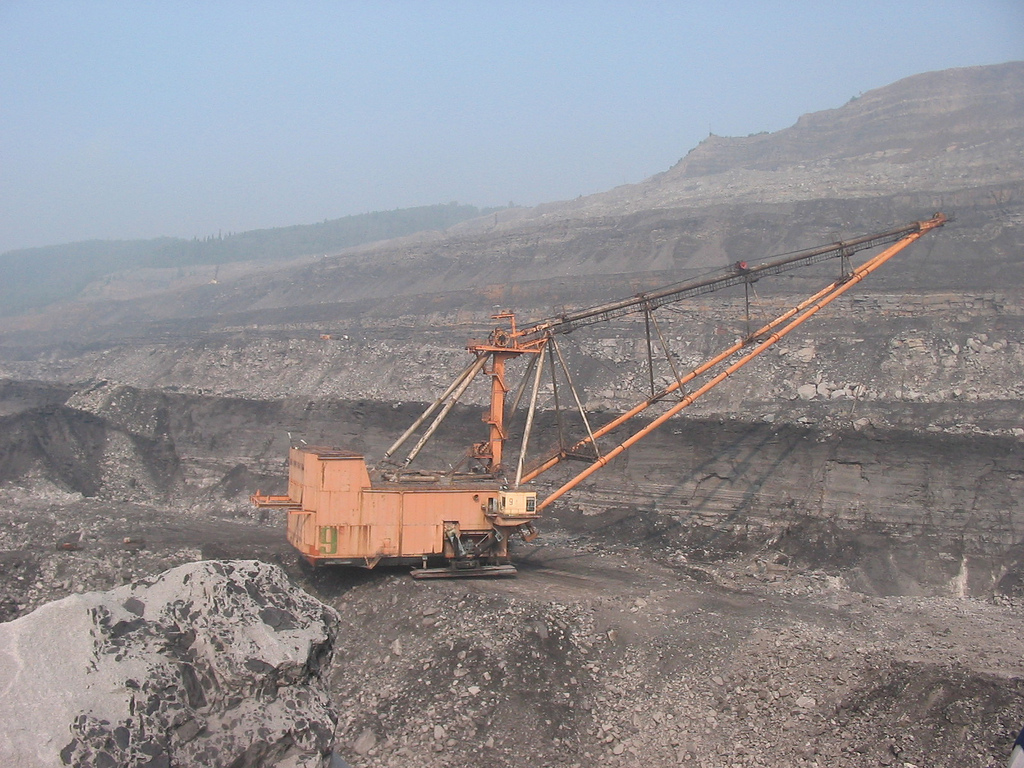 2006: Russia; Mining equipment in Mezhdurechensk